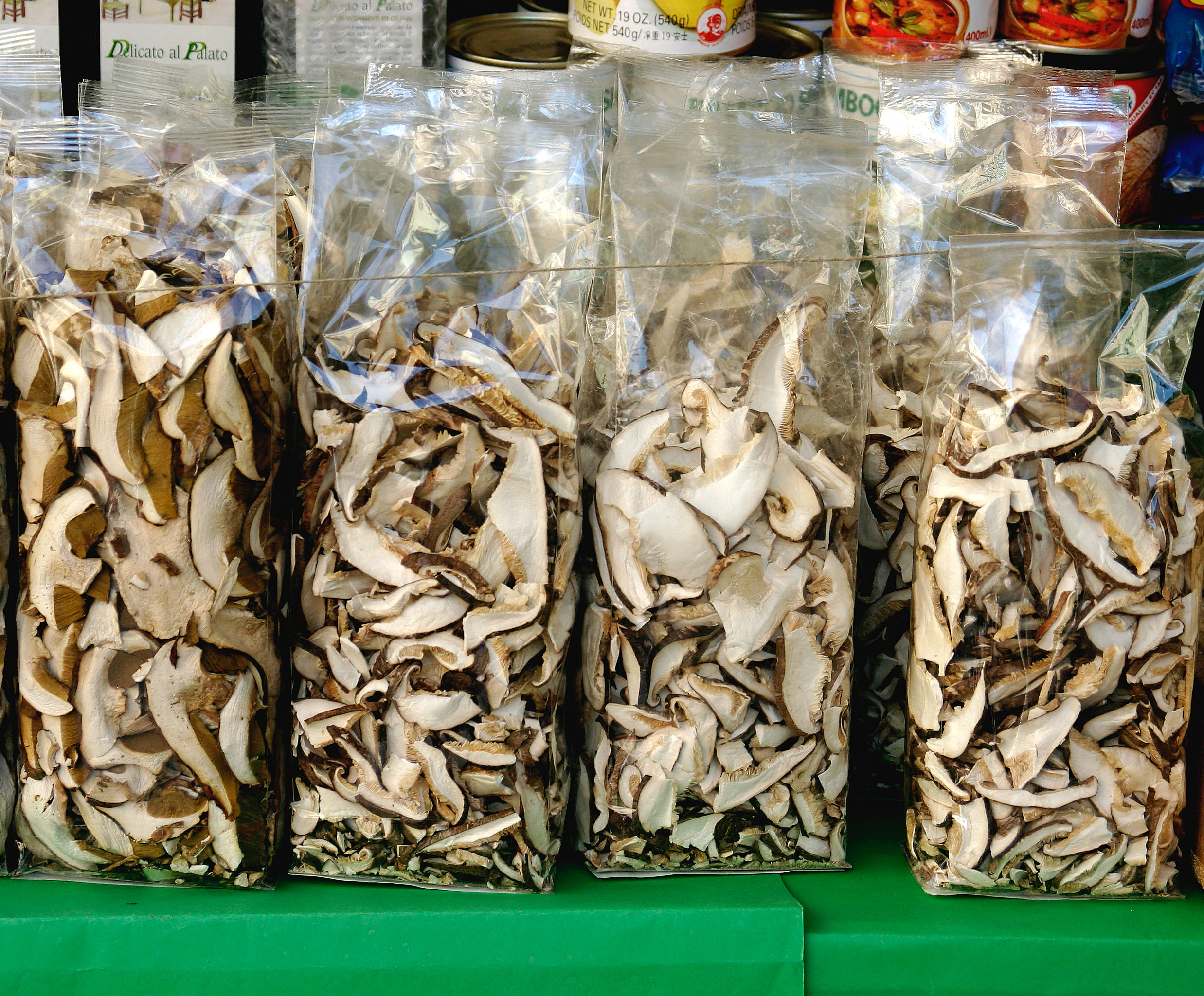 Dried Boletus